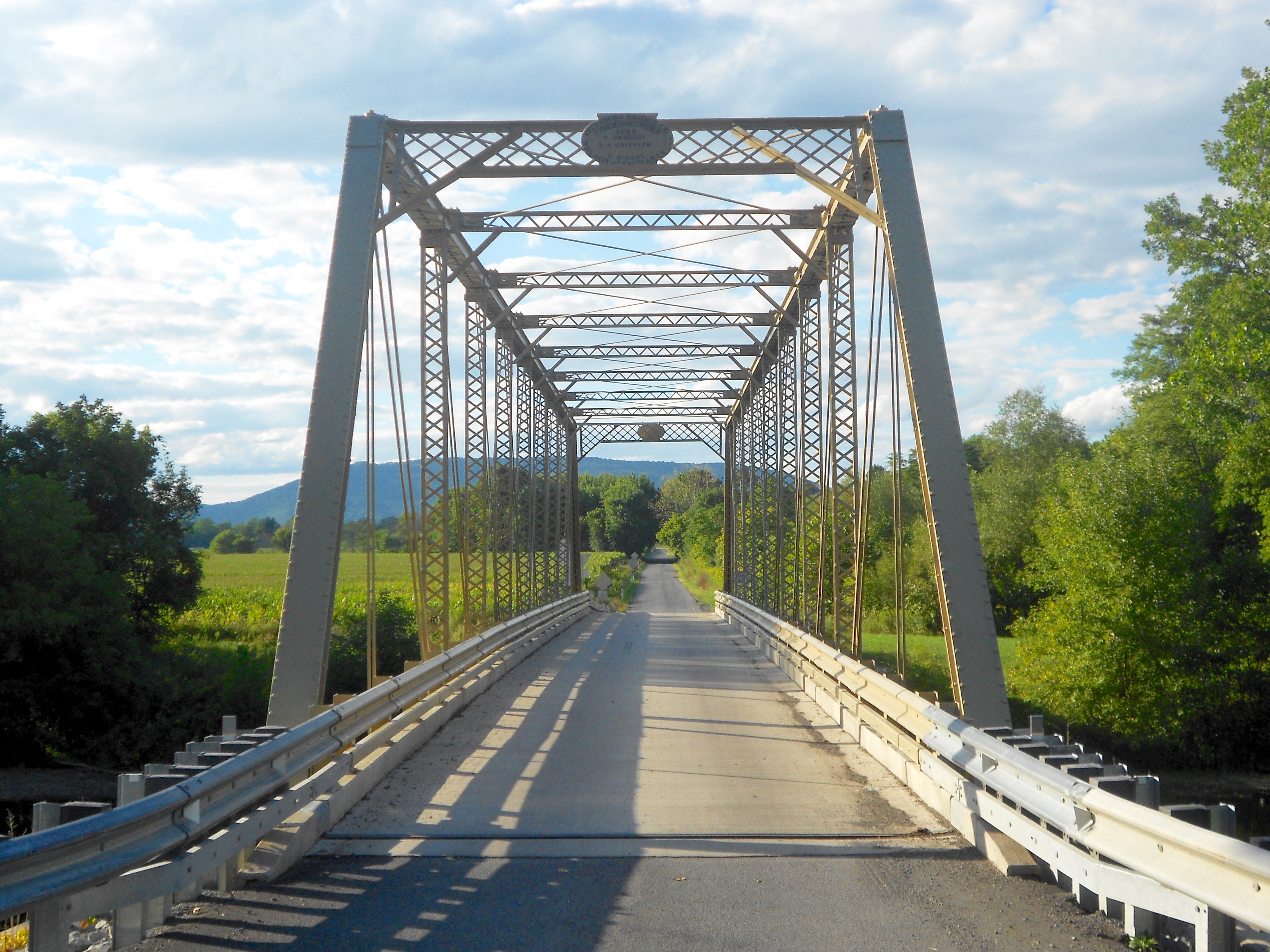 Neff Bridge on Alexandria Pike in Porter Township, Huntingdon County, Pennsylvania. Cross the Frankstown Branch of the Juniata River southeast of Alexandria, PA The plaque at the top of the bridge reads "Pittsburg Bridge Co Commissioners 1889 W Gregory D A Griffith R McNeal Nelson ? Buchanan Act 5" Note there is no "h" in Pittsburg